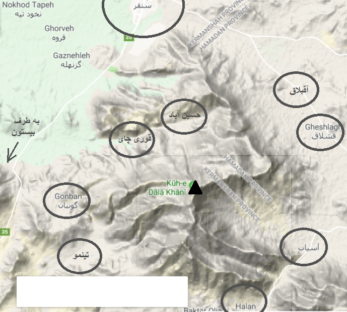 مسیرهای صعود